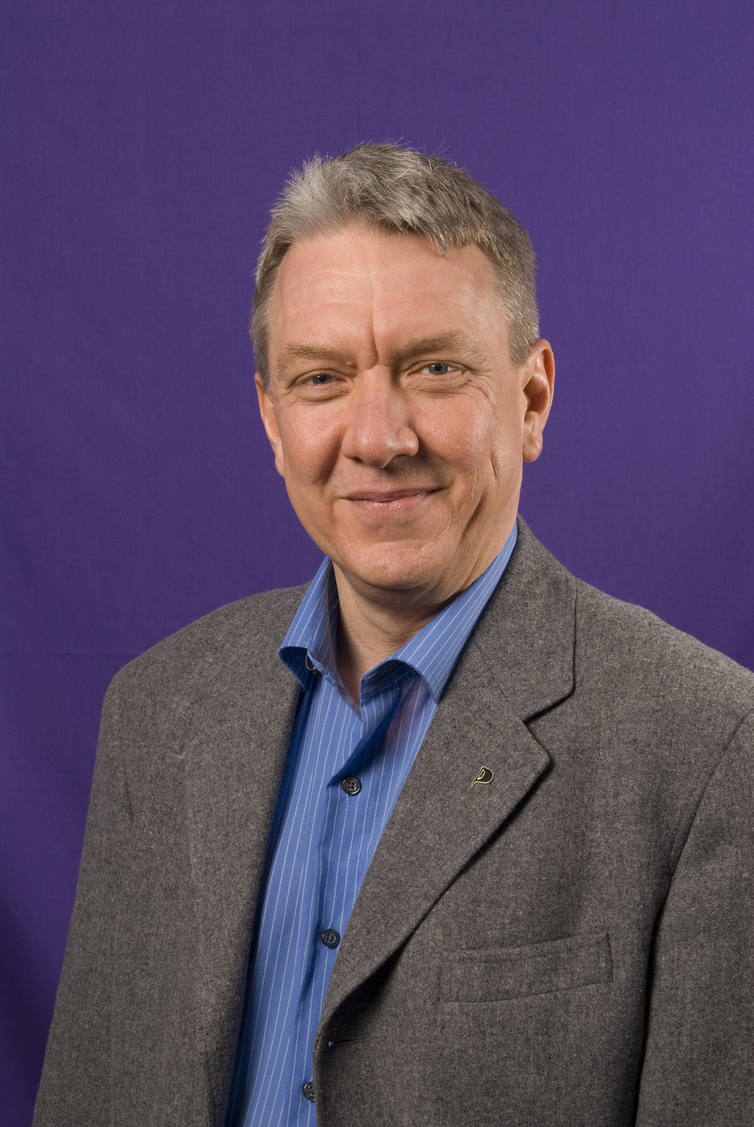 Christian Engström, deputy chairman of the Swedish Pirate Party.